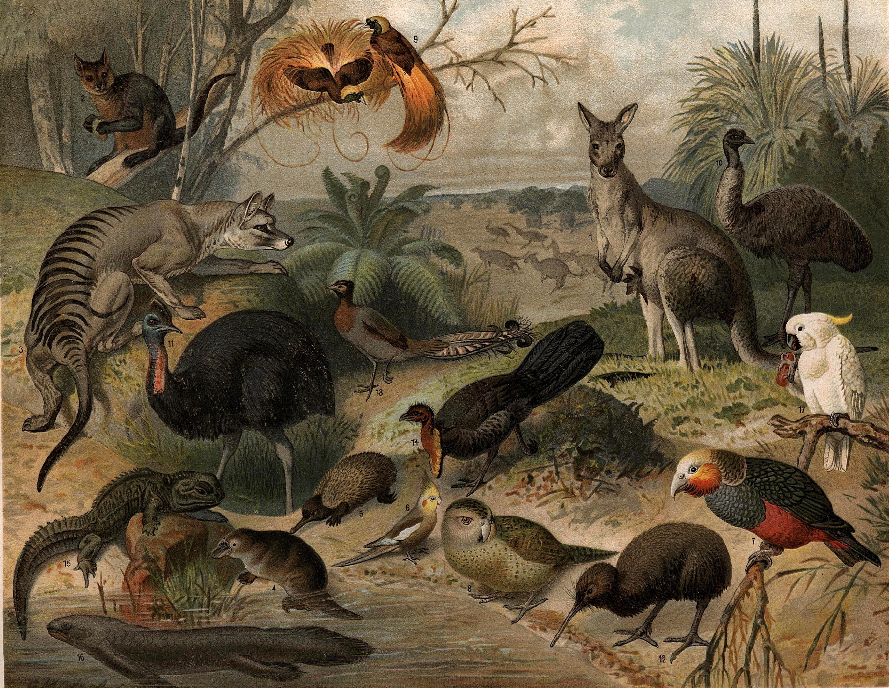 Australian fauna 1. Jättekänguru. 2. Klätterkänguru. 3. Pungvarg. 4. Näbbdjur. 5. Myrigelkott. 6. Nymf. 7. Nestorpapegoja. 8. Ugglepapegoja. 9. Paradisfågel. 10. Emu. 11. Kasuar. 12. Kivi (dvärgstruts). 13. Lyrfågel. 14. Talegalla-höns. 15. Kamödla. 16. Ceratodus Forsteri. 17. Hjälmprydd kakadora. For derived images follow the linked legend entries